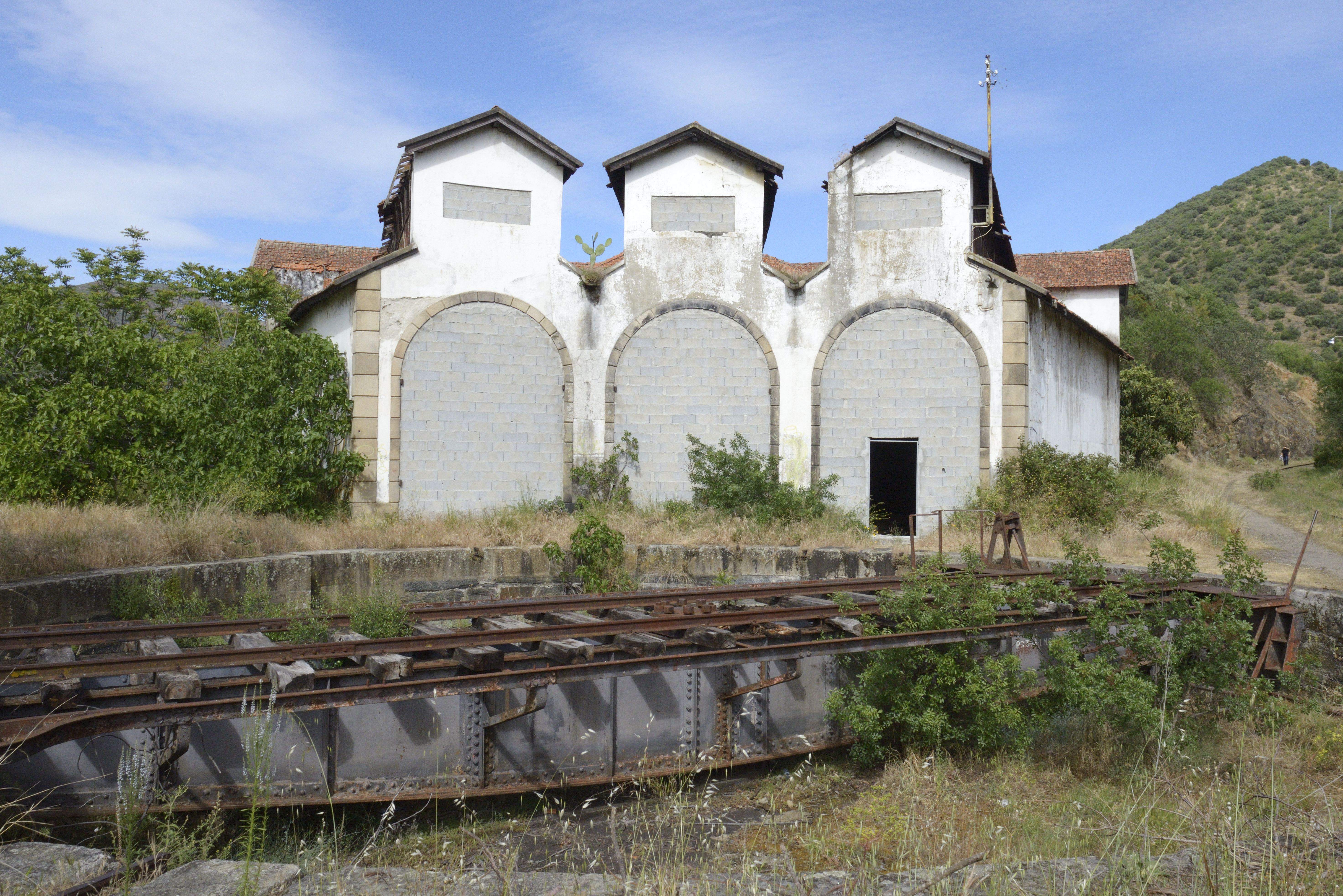 Depot at turning platform at the former train station of Barca d'Alva; Portugal